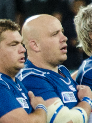 Namibia national rugby union team before the 2015 Rugby World Cup match against New Zealand played at the Olympic Stadium in London.